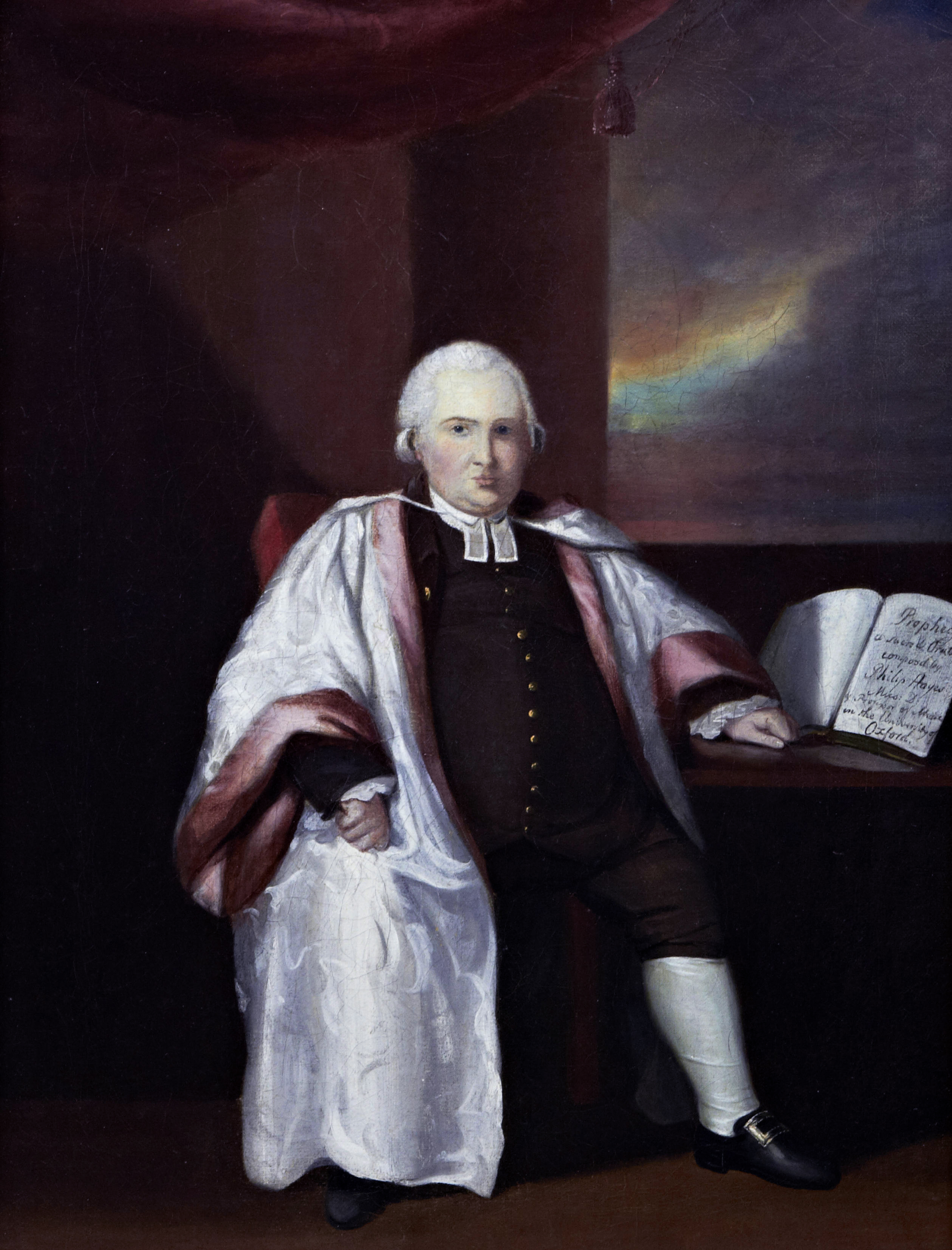 Philip Hayes (1738-1797) oil on canvas 45 x 34cm